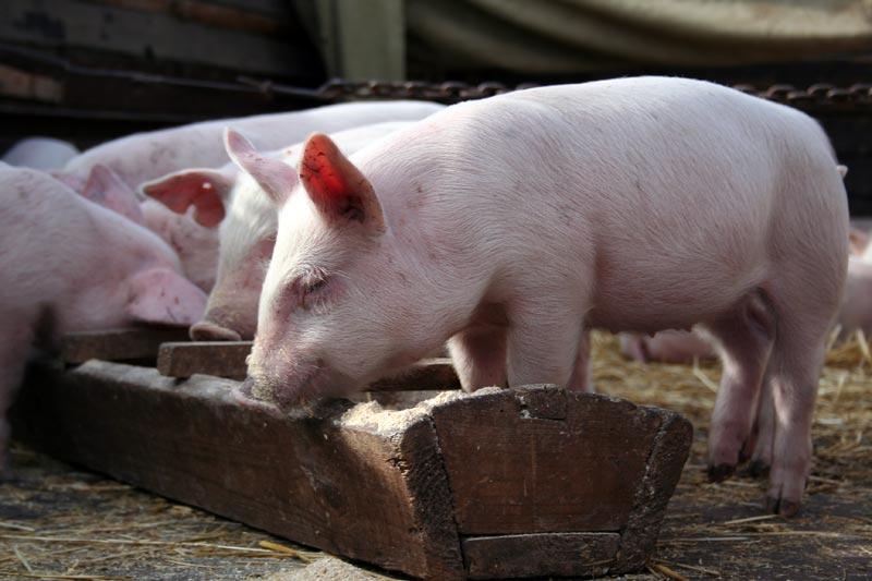 A Young Sus